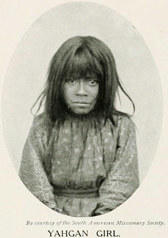 Yahgan girl